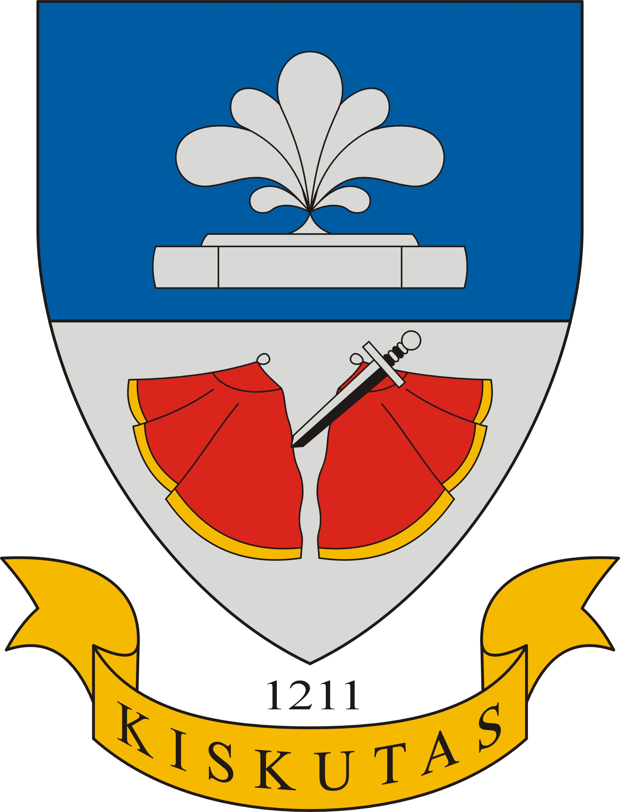 Coat of arms of Kiskutas, Hungary